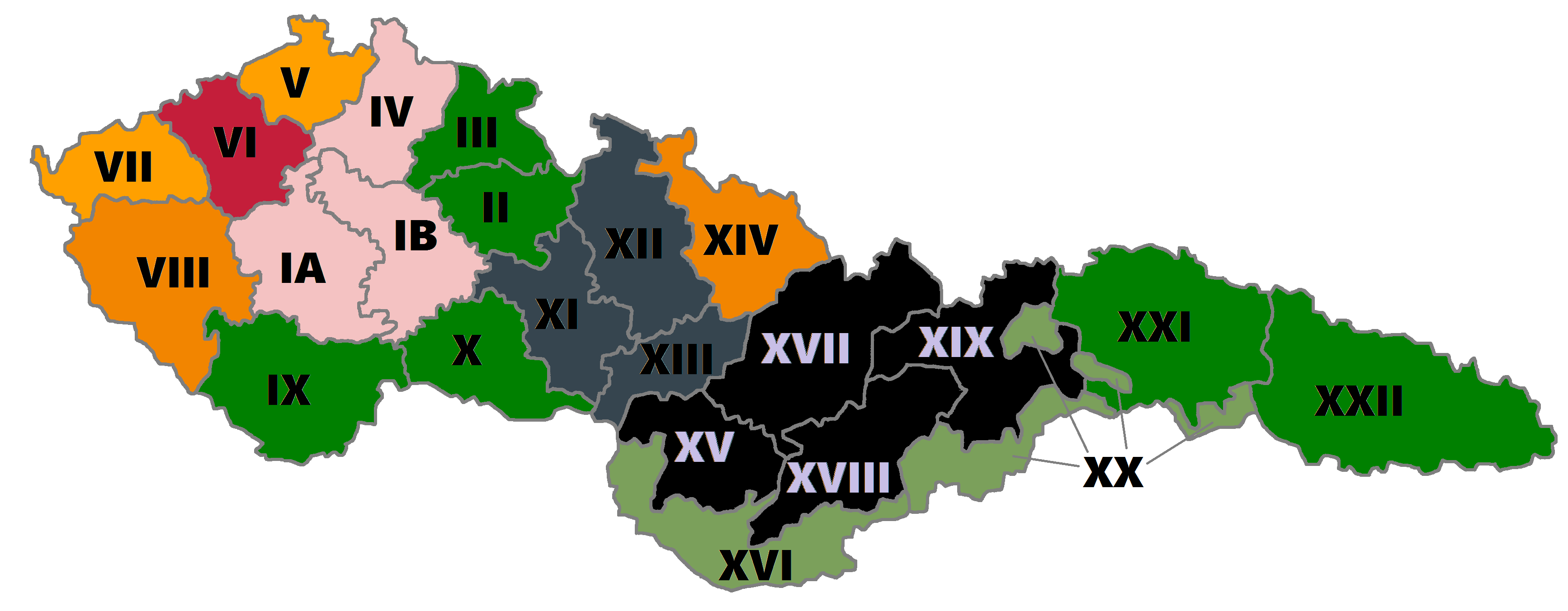 based on File:Electoral districts (Chamber of Deputies) in Czechoslovakia 1925, 1929, 1935 (numbered).png Dark green - Agrarians Pink - Czechoslovak National Socialist Dark Orange - Cz. Soc Dem Light Orange - German Soc Dem Dark Red - Communist Dark blue/grey - Populists Black - Hlinka's Light Green - Hungarian Christian Socialist